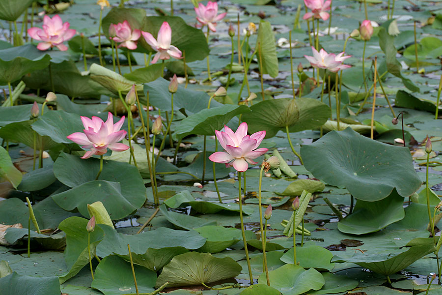 Indian lotus, sacred lotus or bean of India Nelumbo nucifera at Lotus Pond, Hyderabad, India.